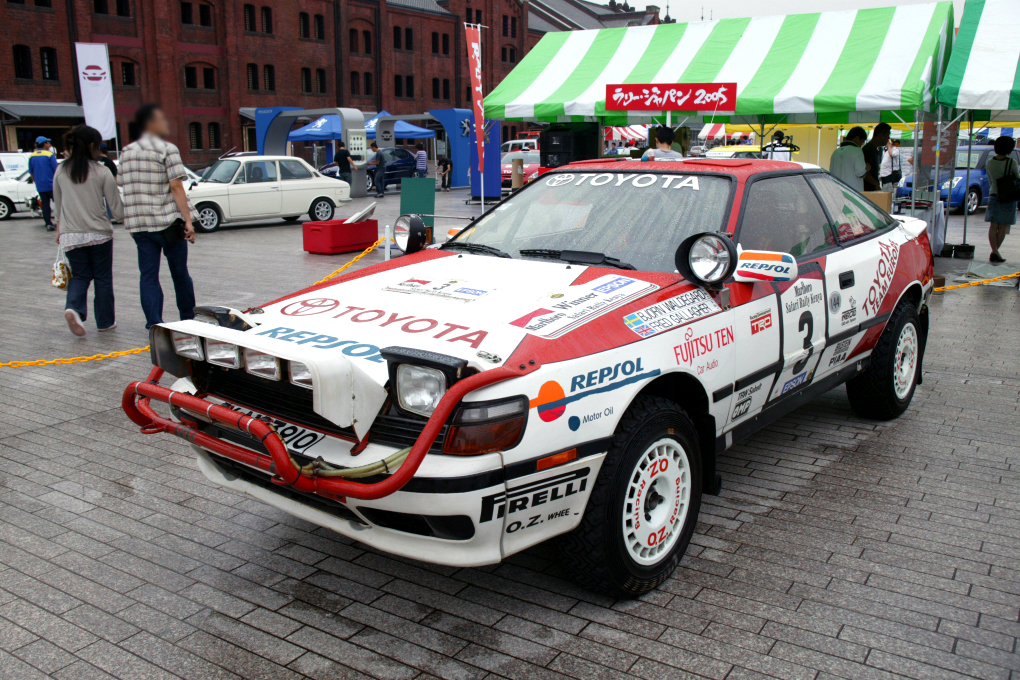 Toyota Celica ST165 Gr.A at The Spirit of Rally 2005.